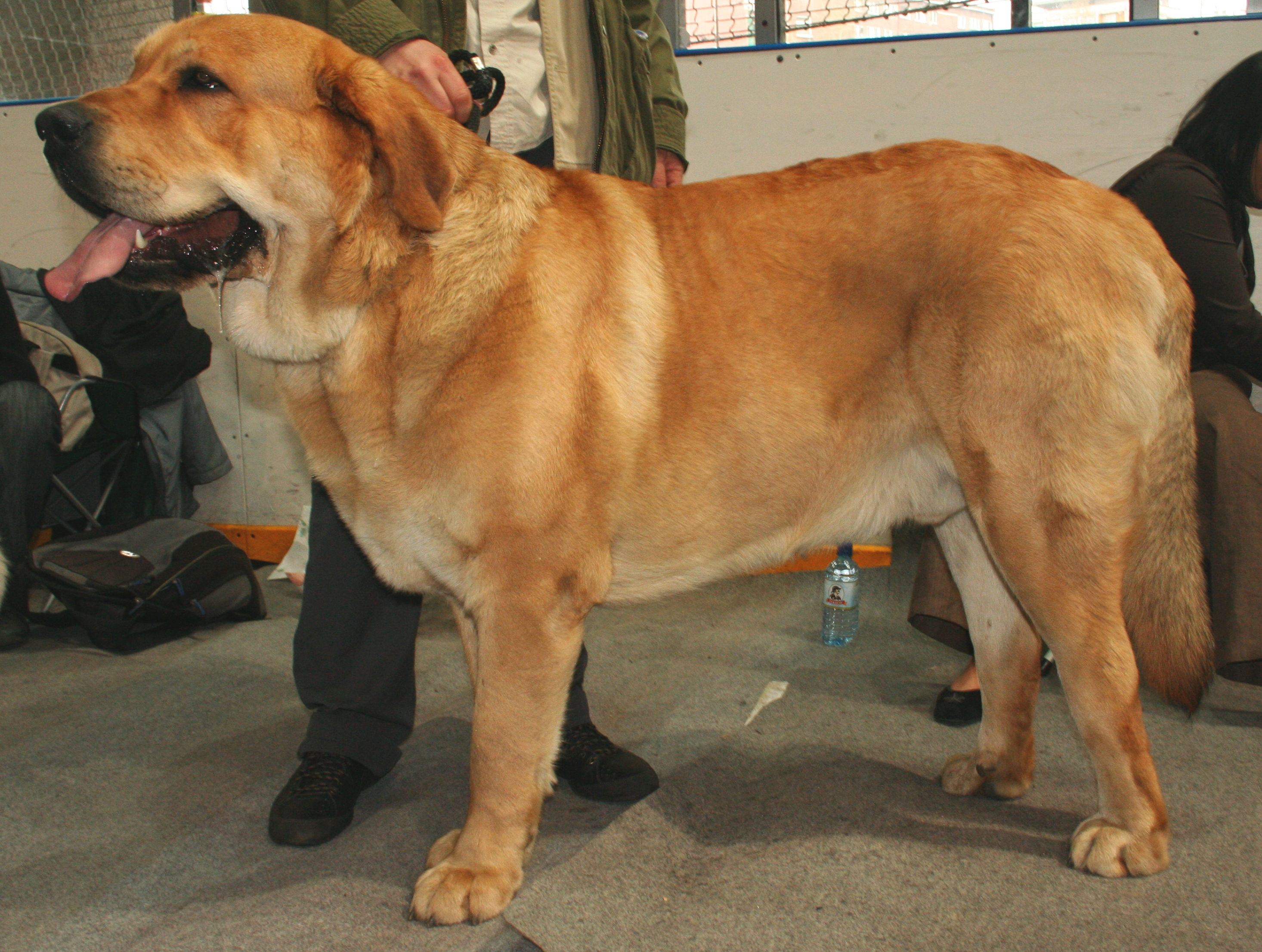 Spanish Mastiff during International show of dogs in Katowice - Spodek, Poland.